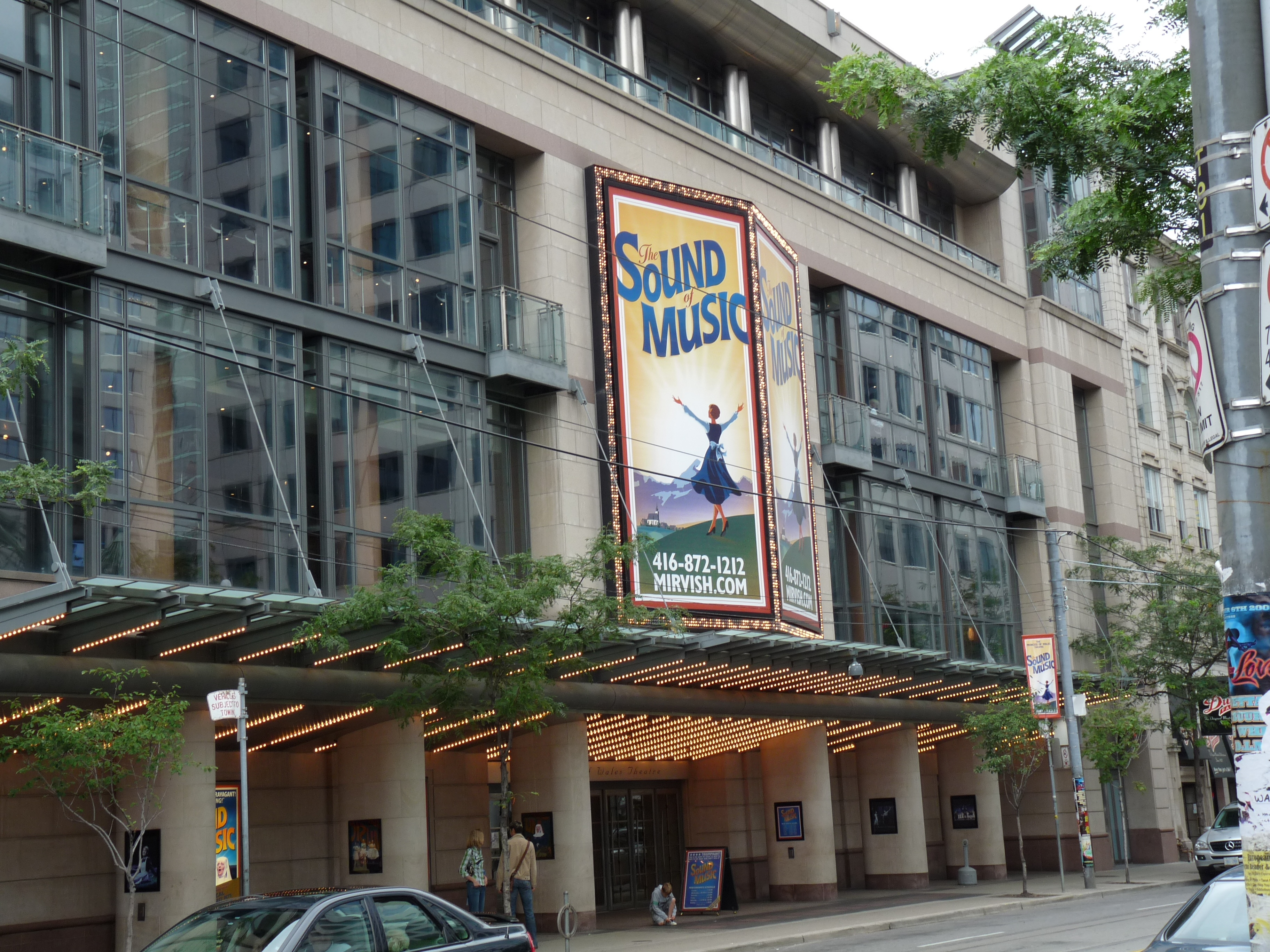 Princess of Wales Theatre, Toronto, Canada.